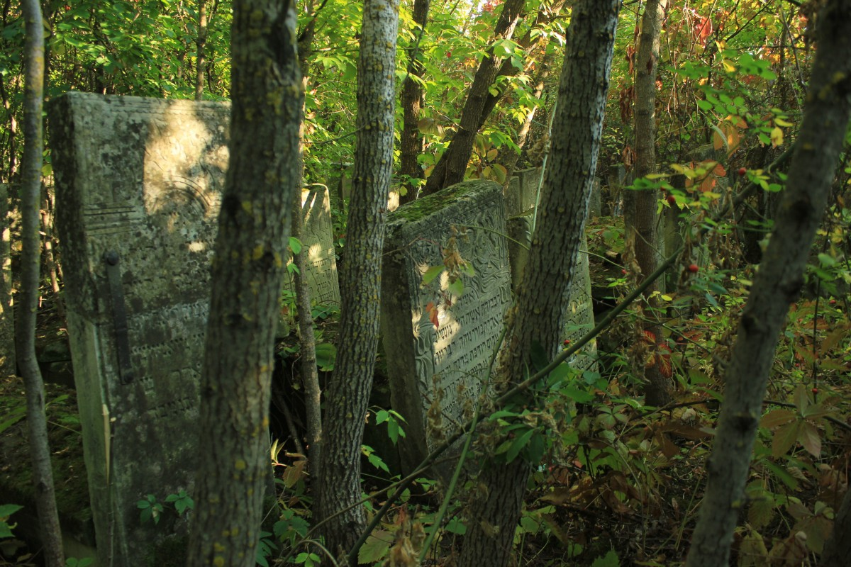 Tomb stones in the older part of the jewish cemetery in Briceni, Moldova.